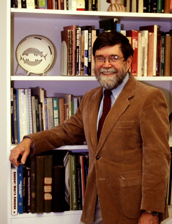 Portrait of Steven A. LeBlanc